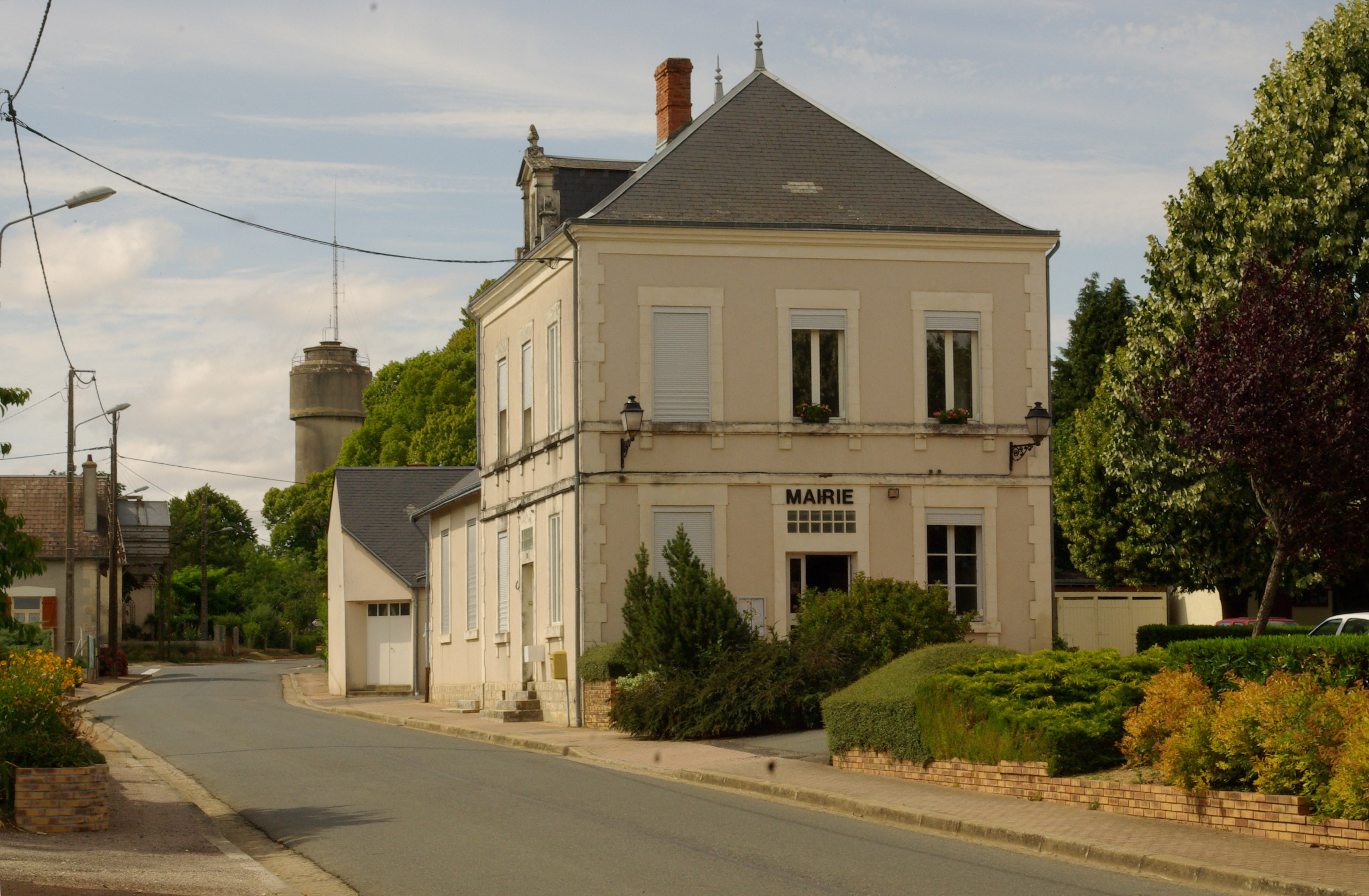 City Hall Ménétréol-sous-Vatan